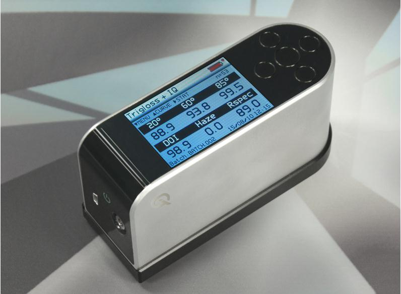 Latest technology for Gloss Measurement Updated image to reflect new technology available for gloss measurement